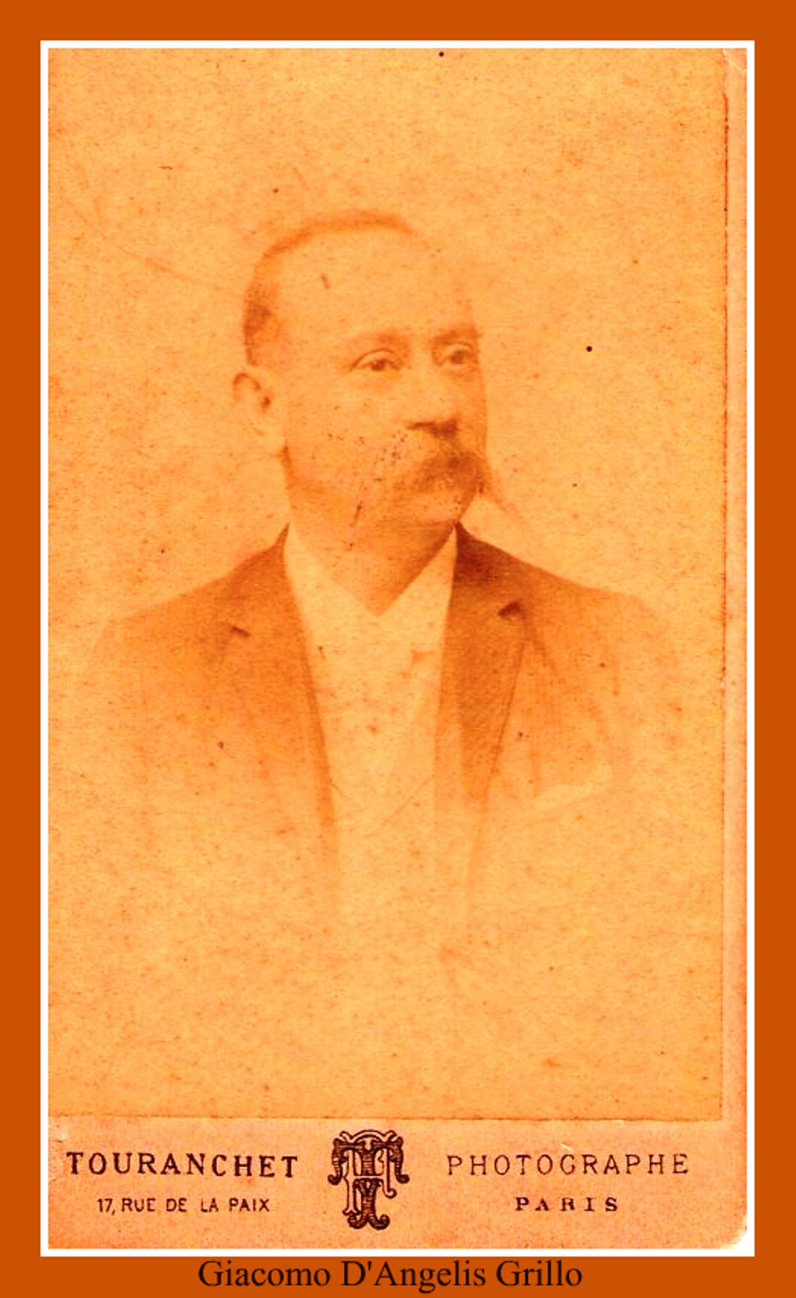 Giacomo D'Angelis Grillo, Photo, D'Angelis FAMILY ARCHIVES